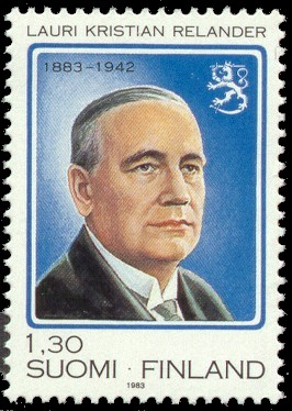 Postage stamp depicting the President of Finland Lauri Kristian Relander